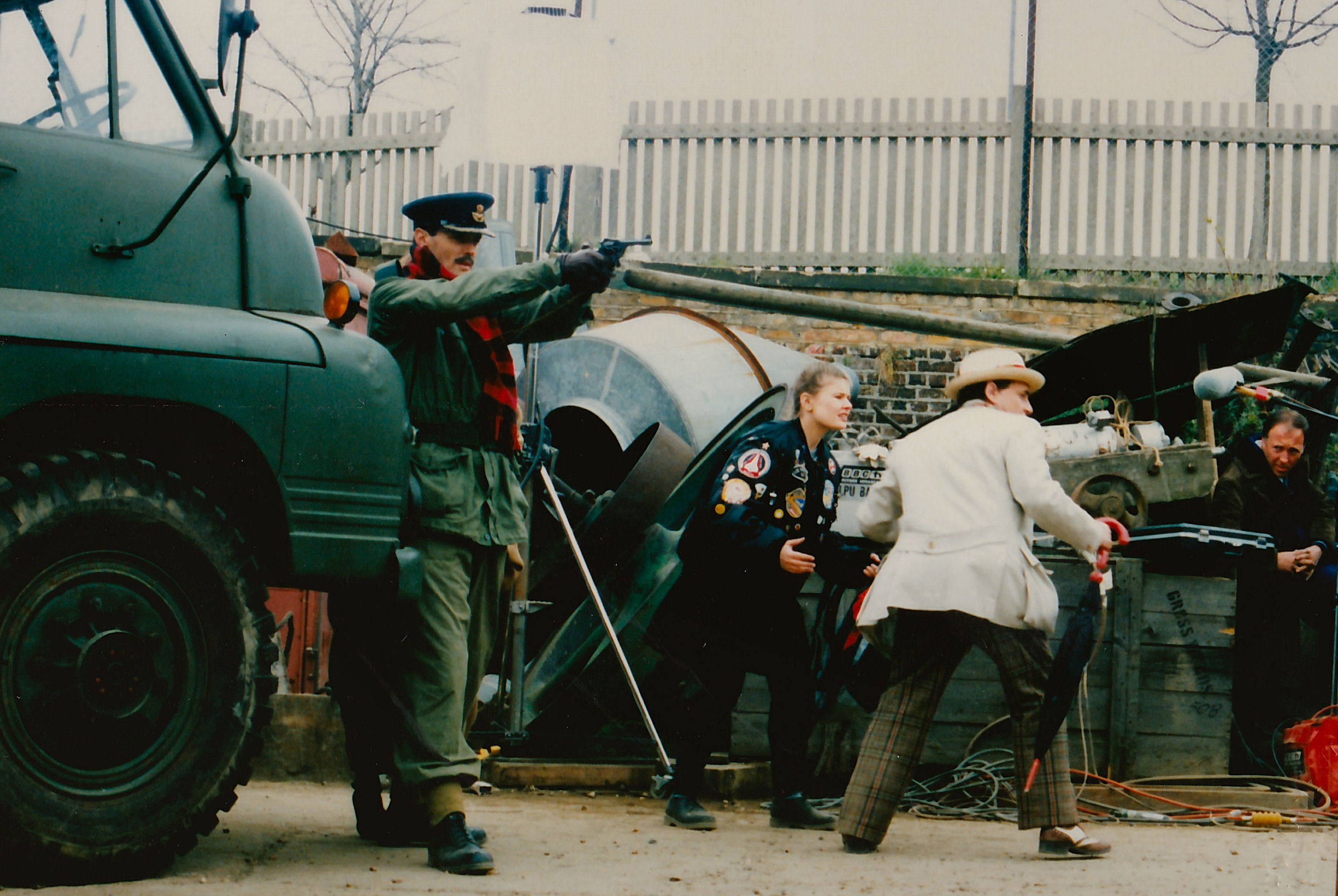 Simon Williams, Sylvester McCoy and Sophie Aldred on location during the making of Remembrance of the Daleks